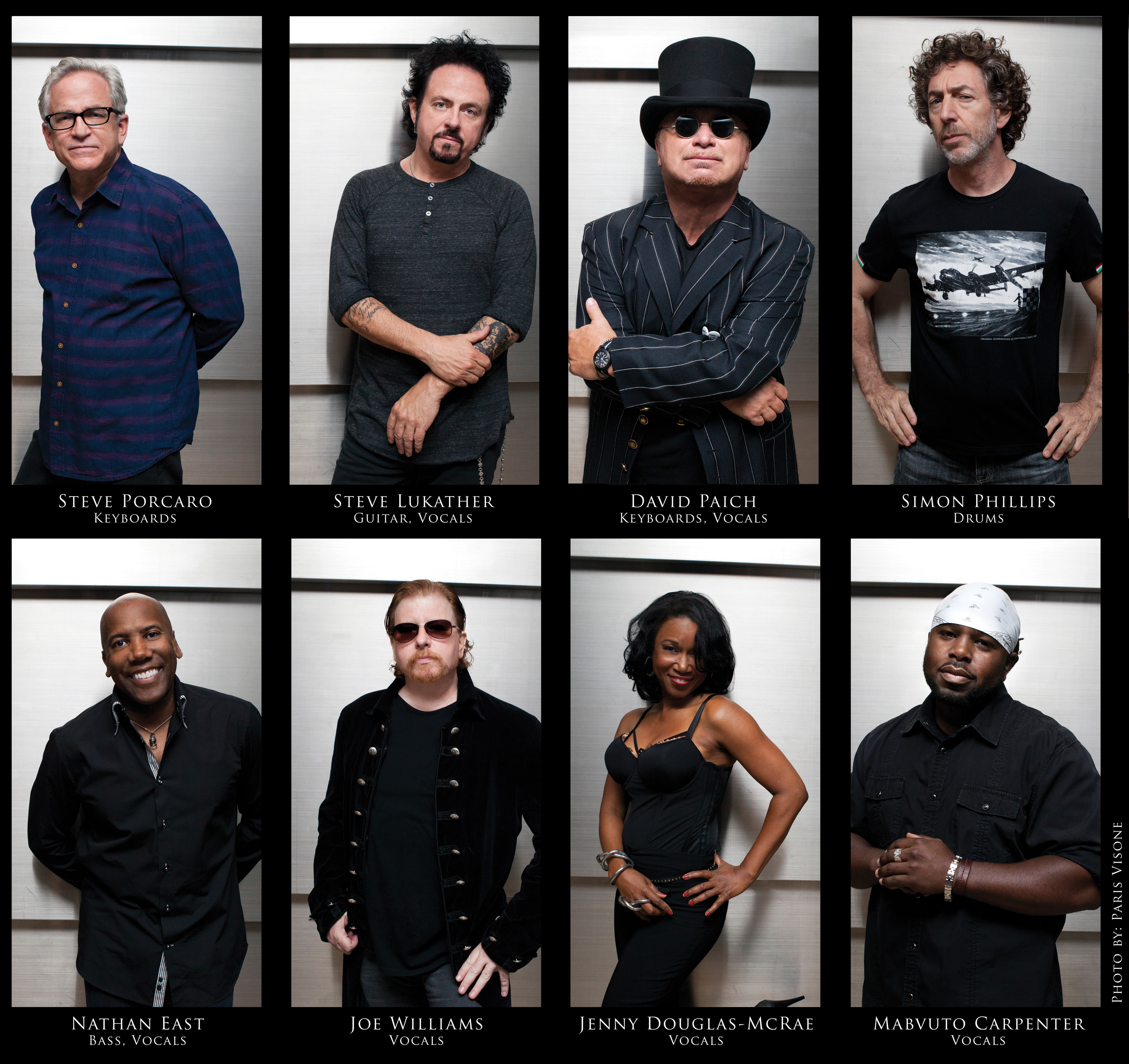 Promotion image of Toto in 2012